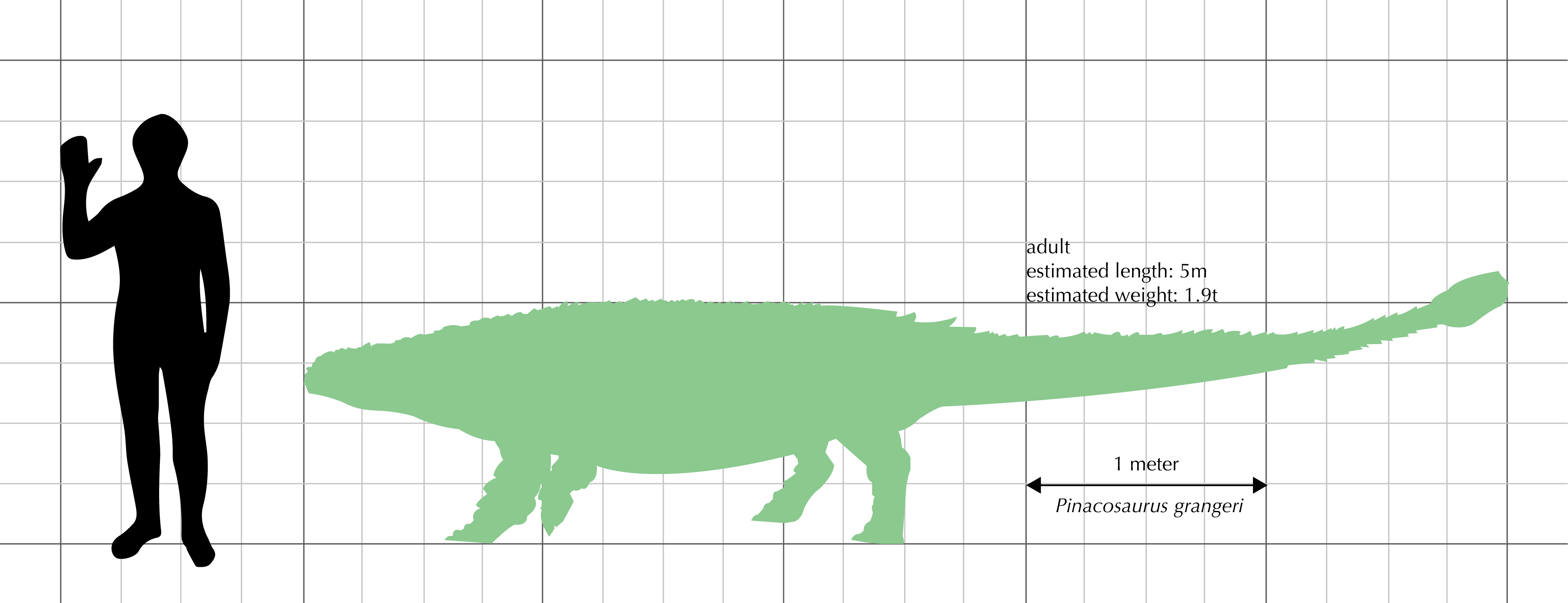 A size comparison between a human male and a Pinacosaurus grangeri specimen (size estimates by Hill et. al., 2003 and Paul, 2010).